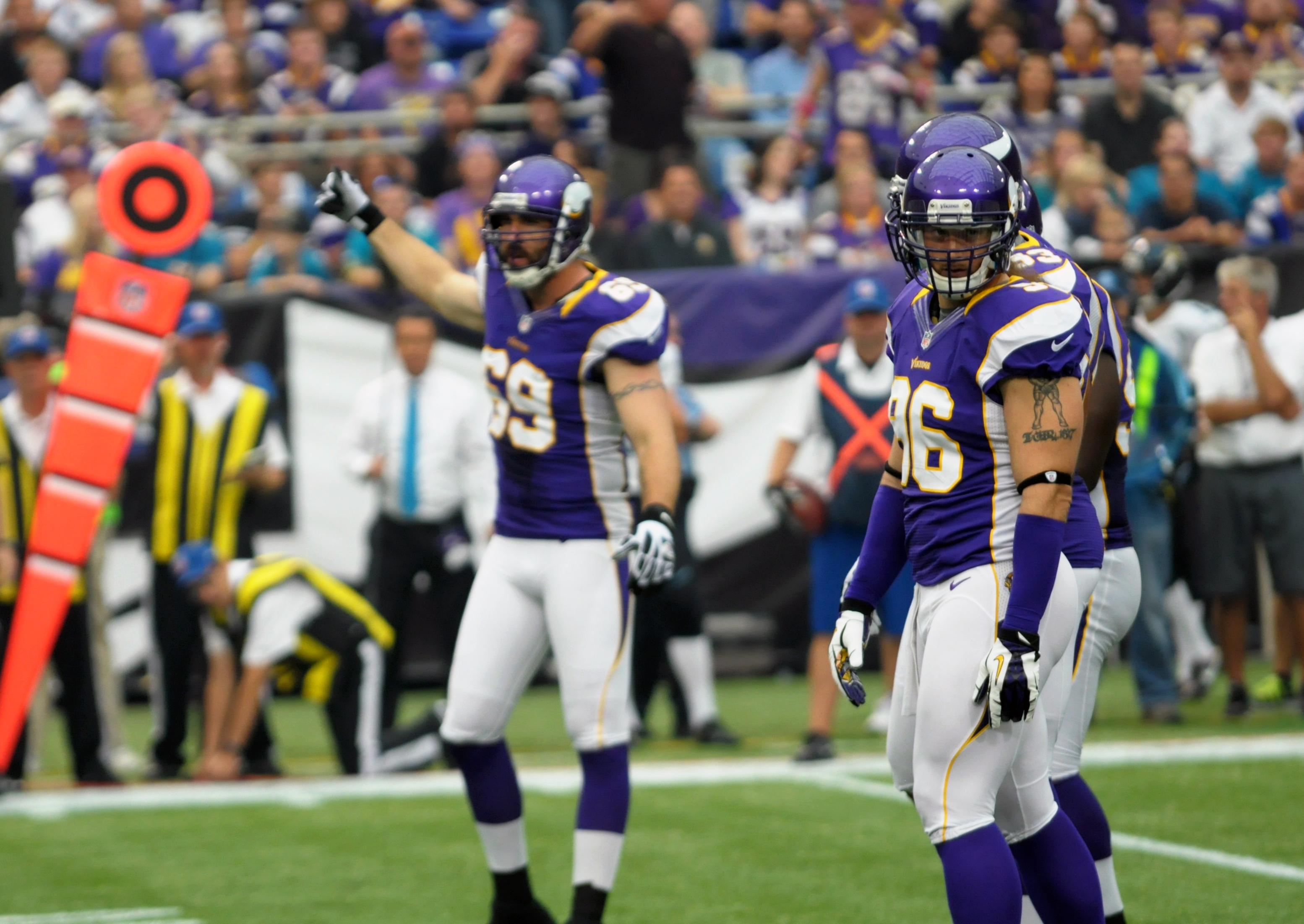 Minnesota Vikings DE Brian Robison during the first match of the 2012 regular season vs. the Jacksonville Jaguars.